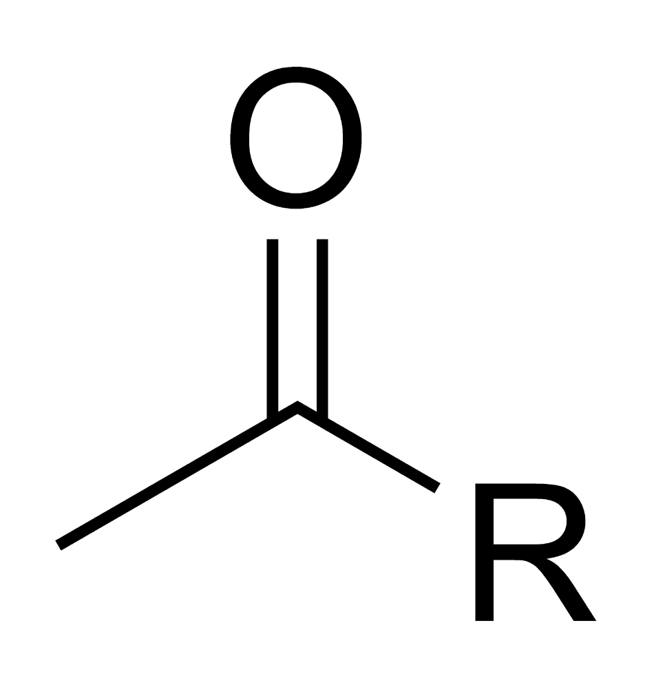 Chemical structure of Acetyl. High-resolution b/w PNG; ChemDraw / Photoshop.